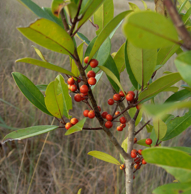 Found in Everglades National Park